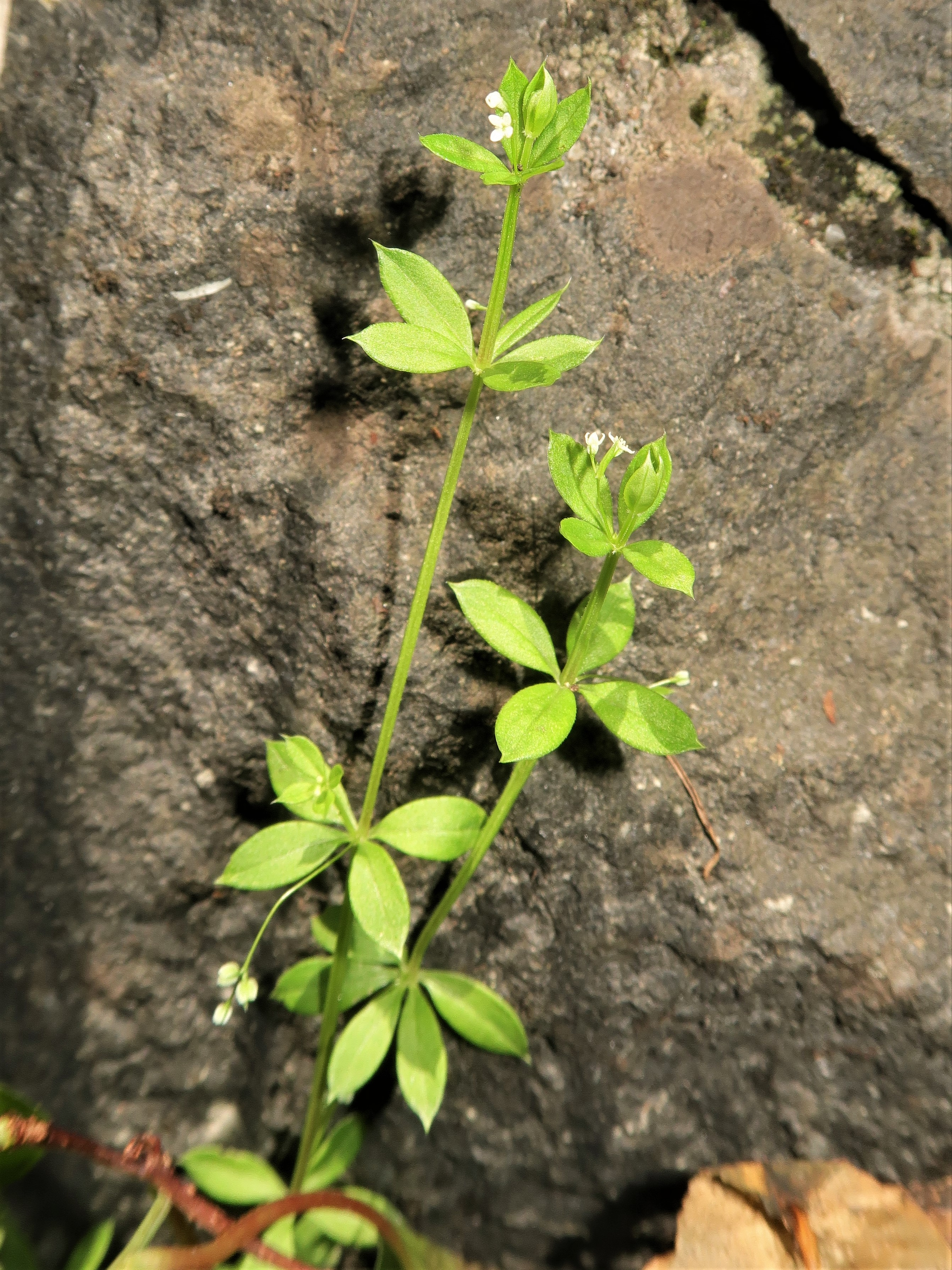 Galium kikumugura, Nikko city, Tochigi pref., Japan